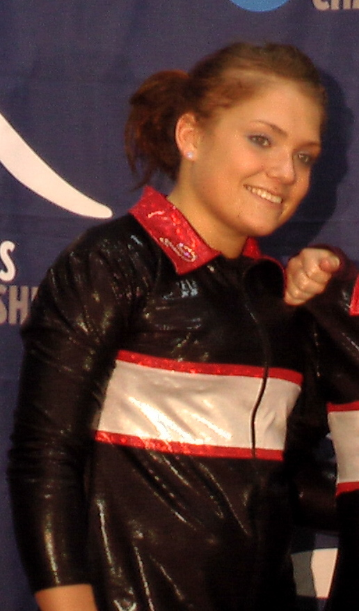 Courtney McCool FX (Georgia), Grace Taylor Beam (Georgia(, Susan Jackson Vault (LSU), Tasha Schwikert Bars (UCLA)